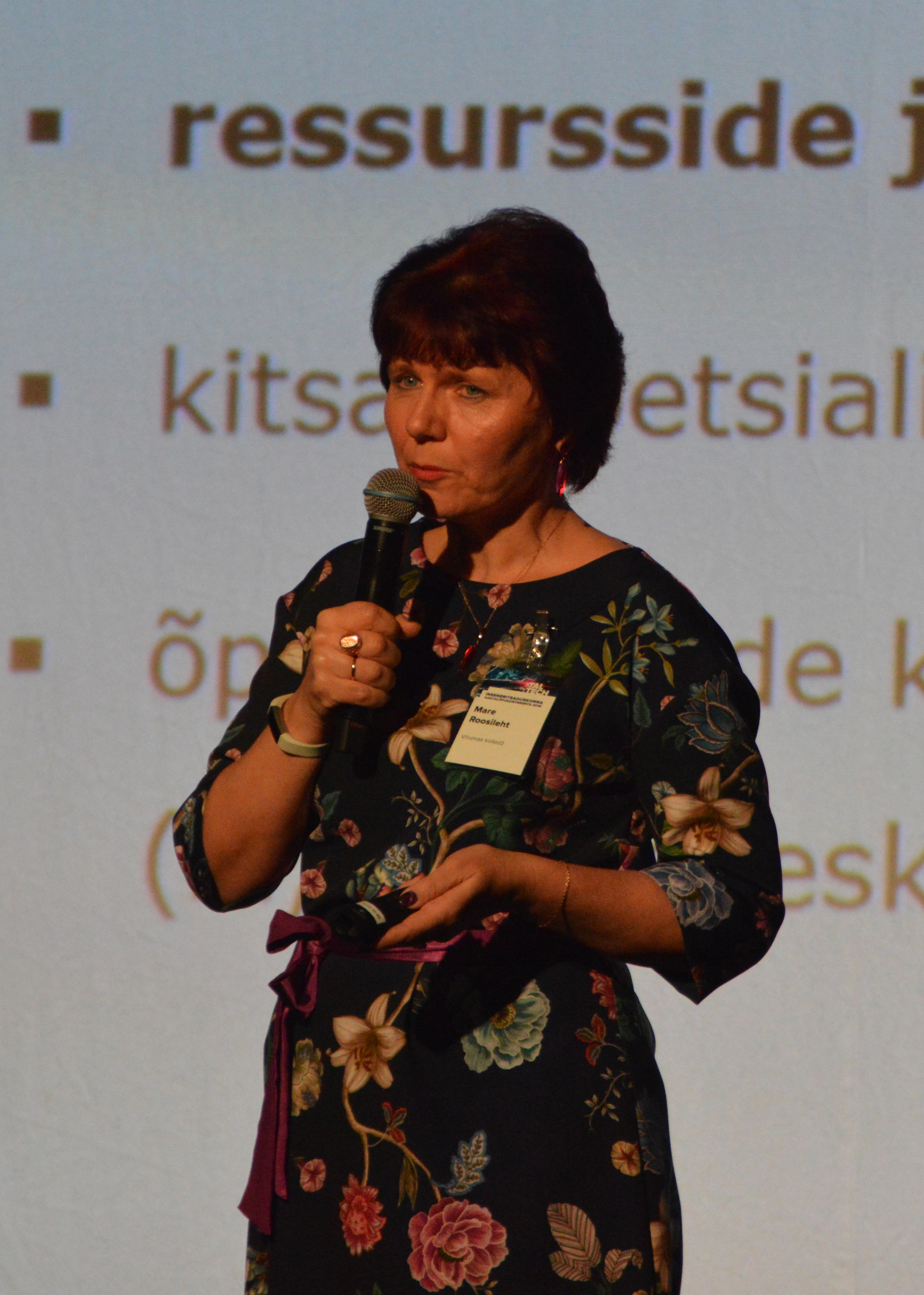 School of Engineering conference